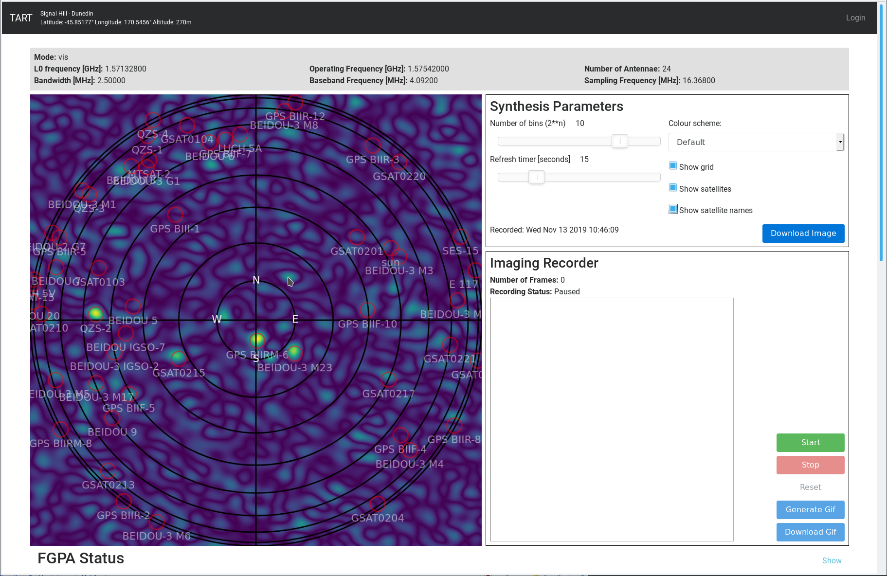 The TART open-source radio telescope console uses a web app to perform imaging in the browser. This is a screenshot of that app.